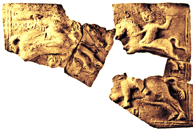 Bolgari sclavi teracota Vinitza FYROM